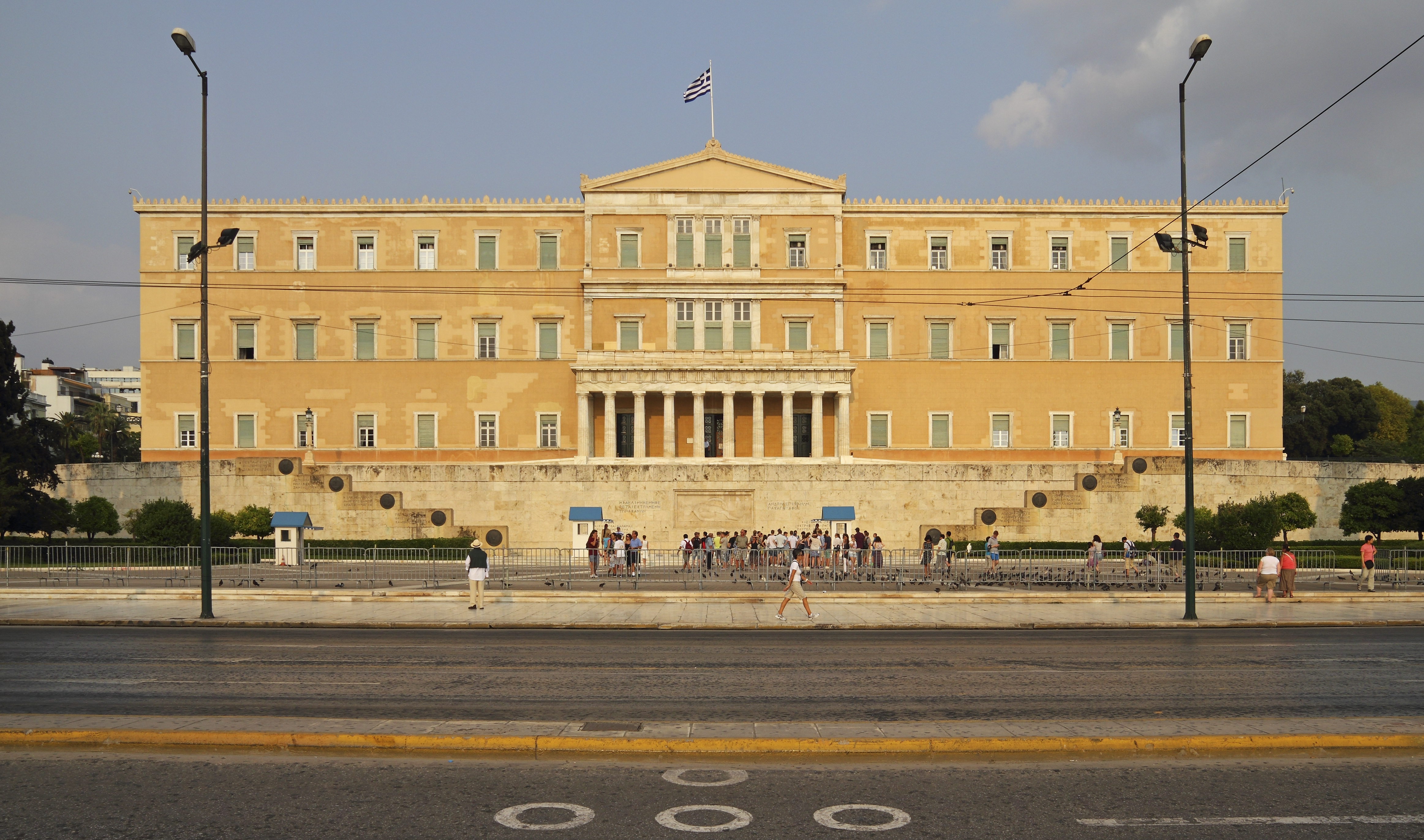 Building of the Greek Parliament in Athens (Attica, Greece)